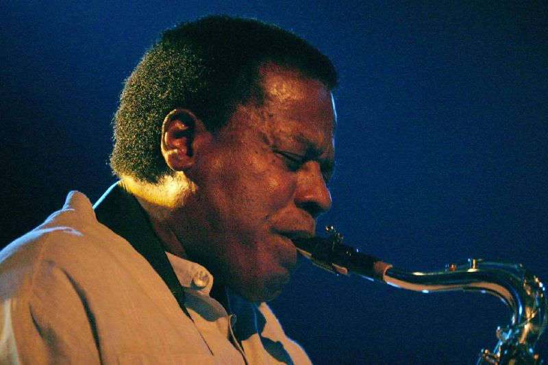 American jazz saxophonist Wayne Shorter in 2006.